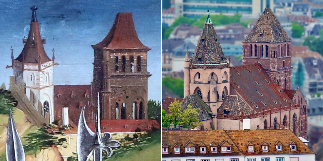 View to the Protestant Church of St. Thomas, Strasbourg, Alsace, France